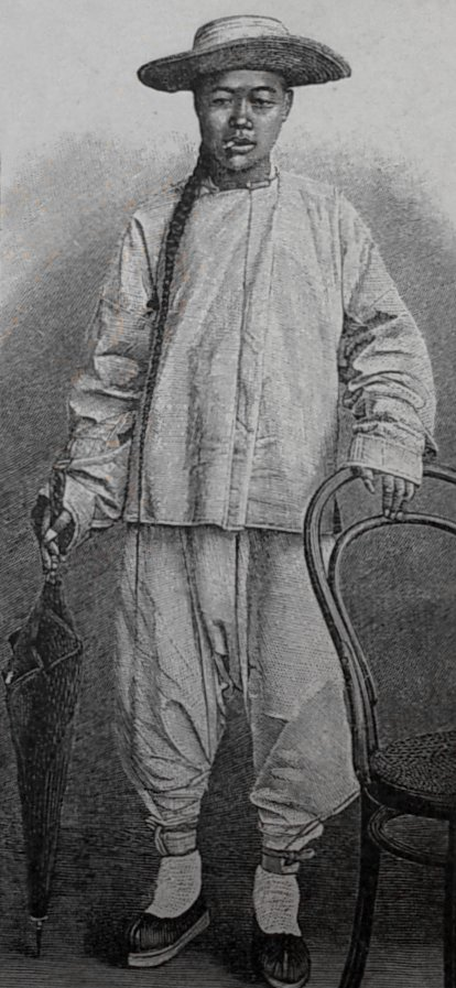 A "westernized" Chinaboy from Vladivostok, 1890s